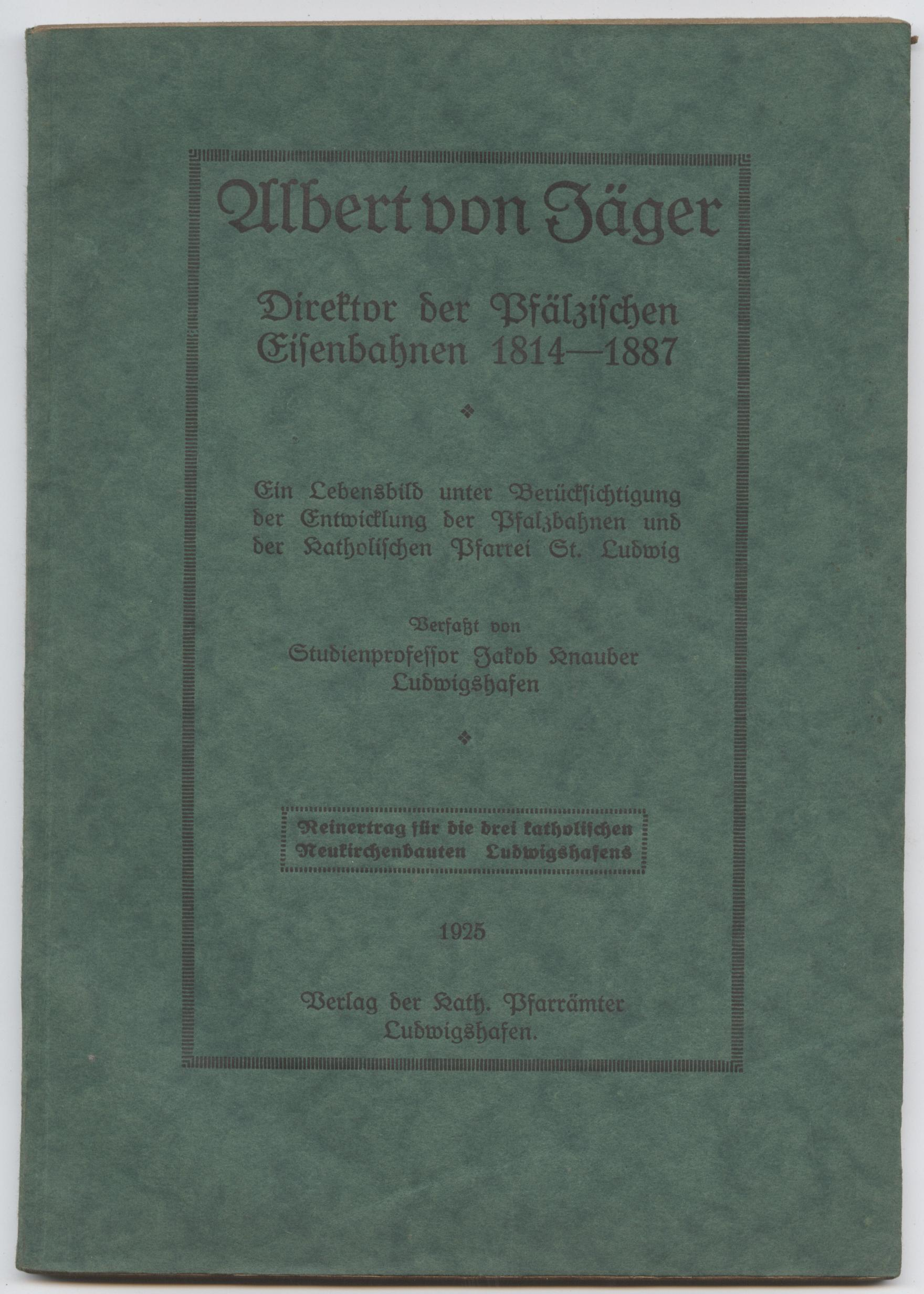 Jakob Knauber, book cover